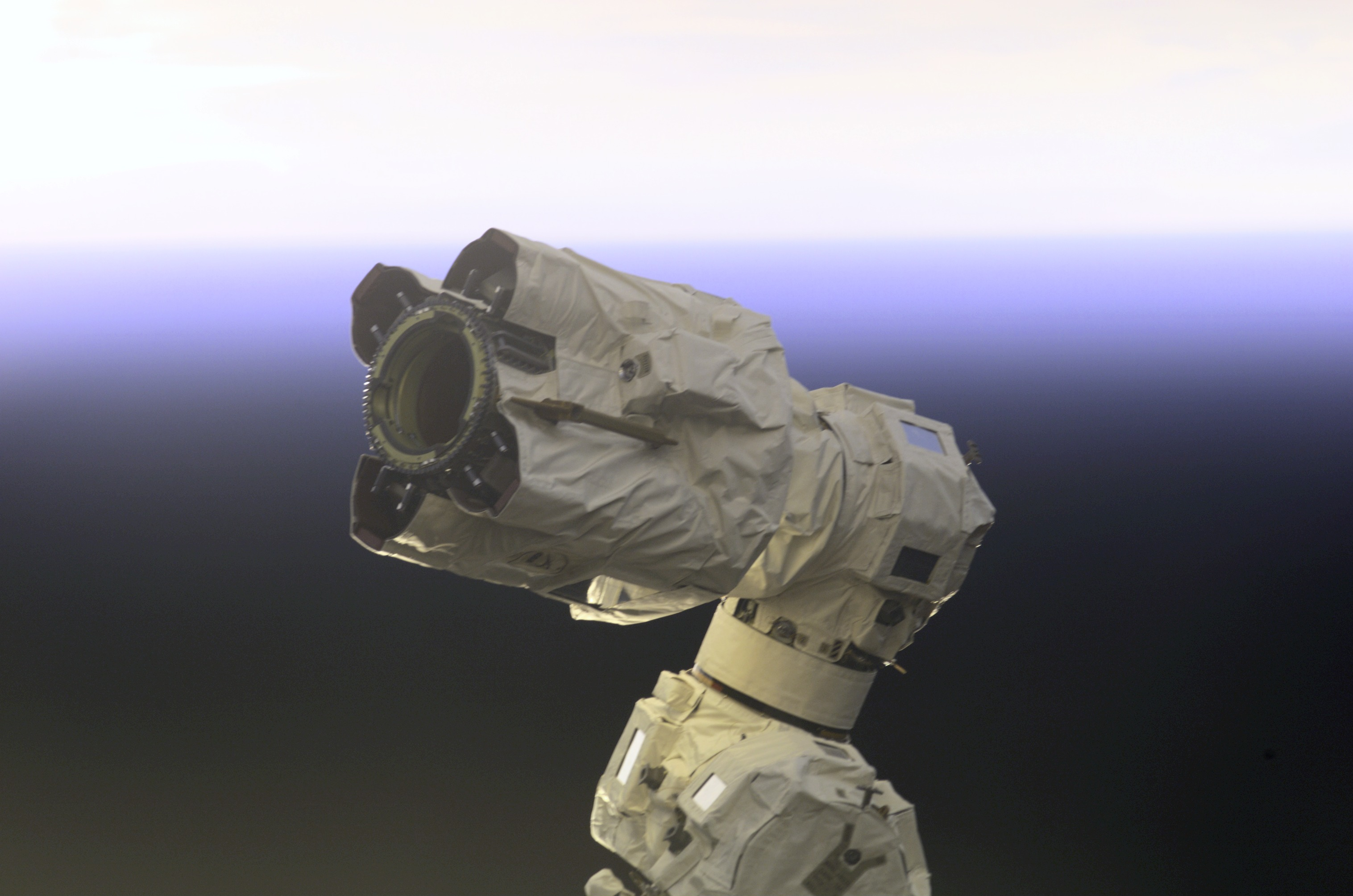 Backdropped by an Earth limb, an Endeavour crew member photographed this view of the end effector for the Canadarm2 / Space Station Remote Manipulator System (SSRMS) taken by a STS-108 crewmember through an aft flight deck window during the docking approach of the Space Shuttle Endeavour to the International Space Station.